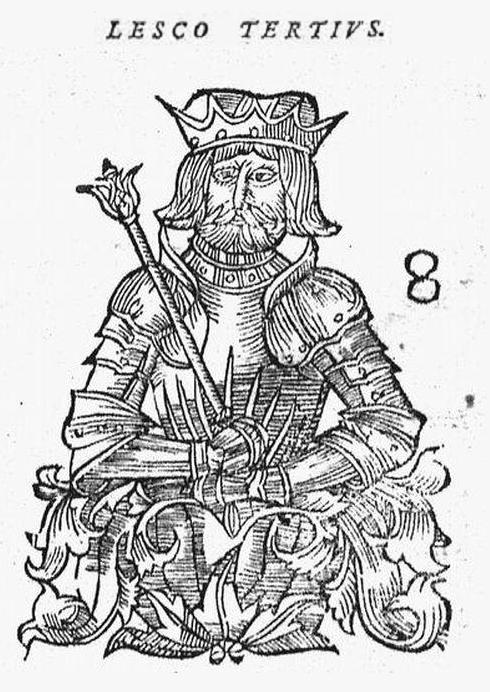 A picture of Lestek III, legendary king of Poland.